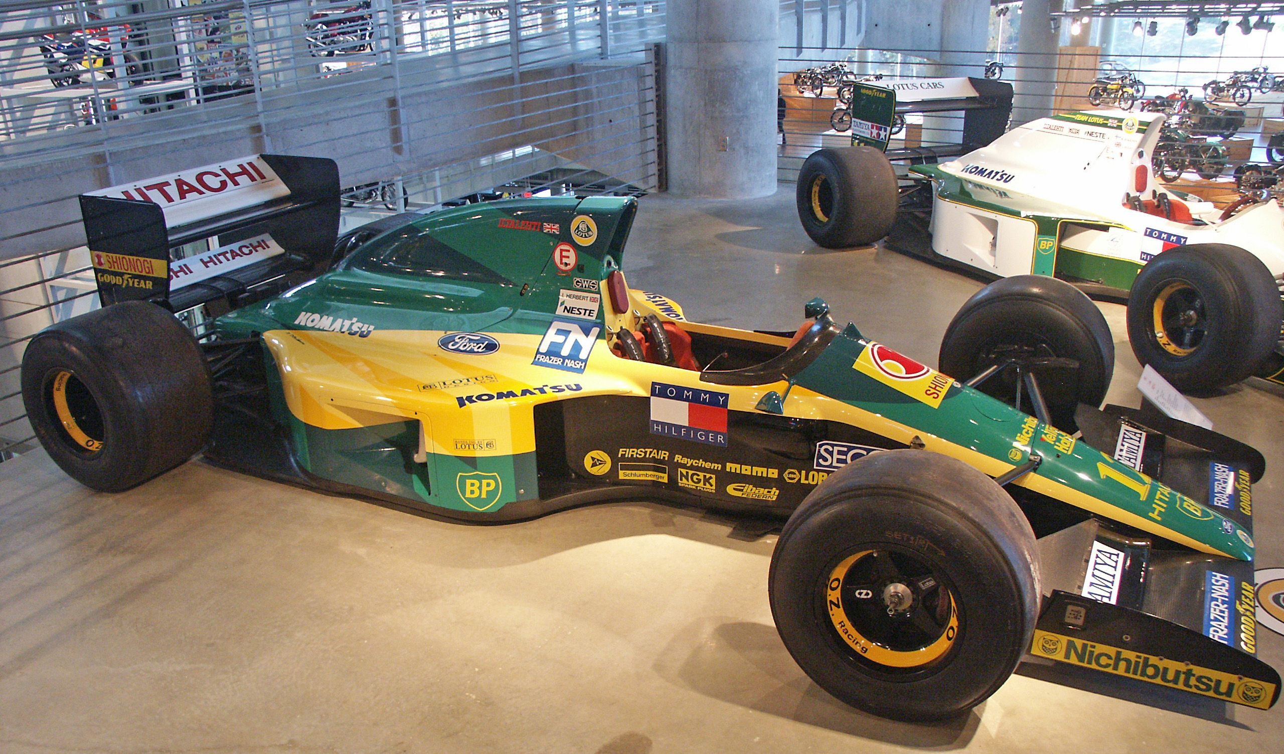 Lotus 102D (1992) at the Barber Vintage Motorsports Museum in Leeds, Alabama, USA.